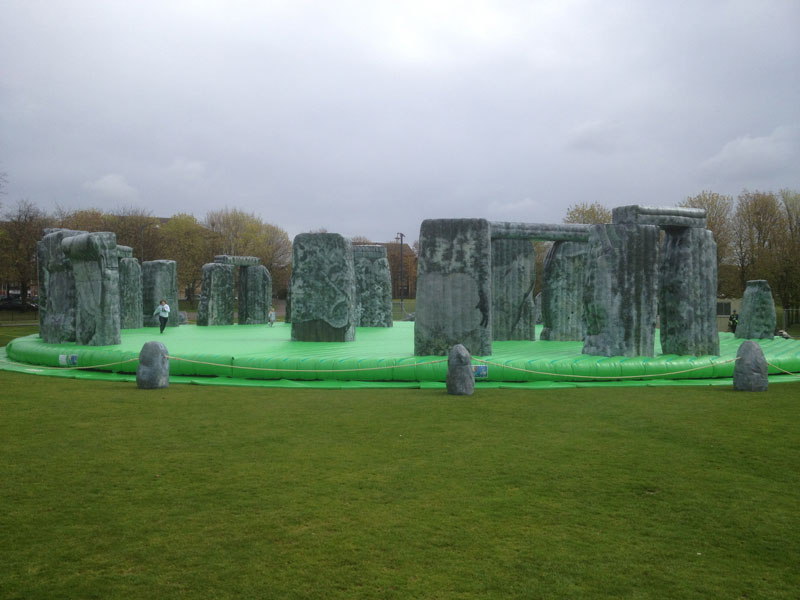 A 1:1 scale bouncy reproduction of Stonehenge.